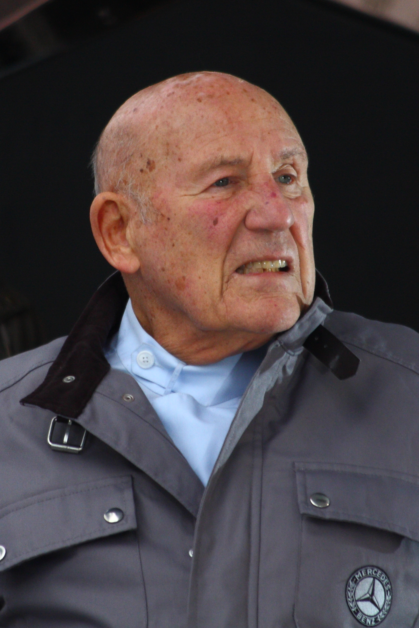 Stirling Moss at Stars and Cars 2014